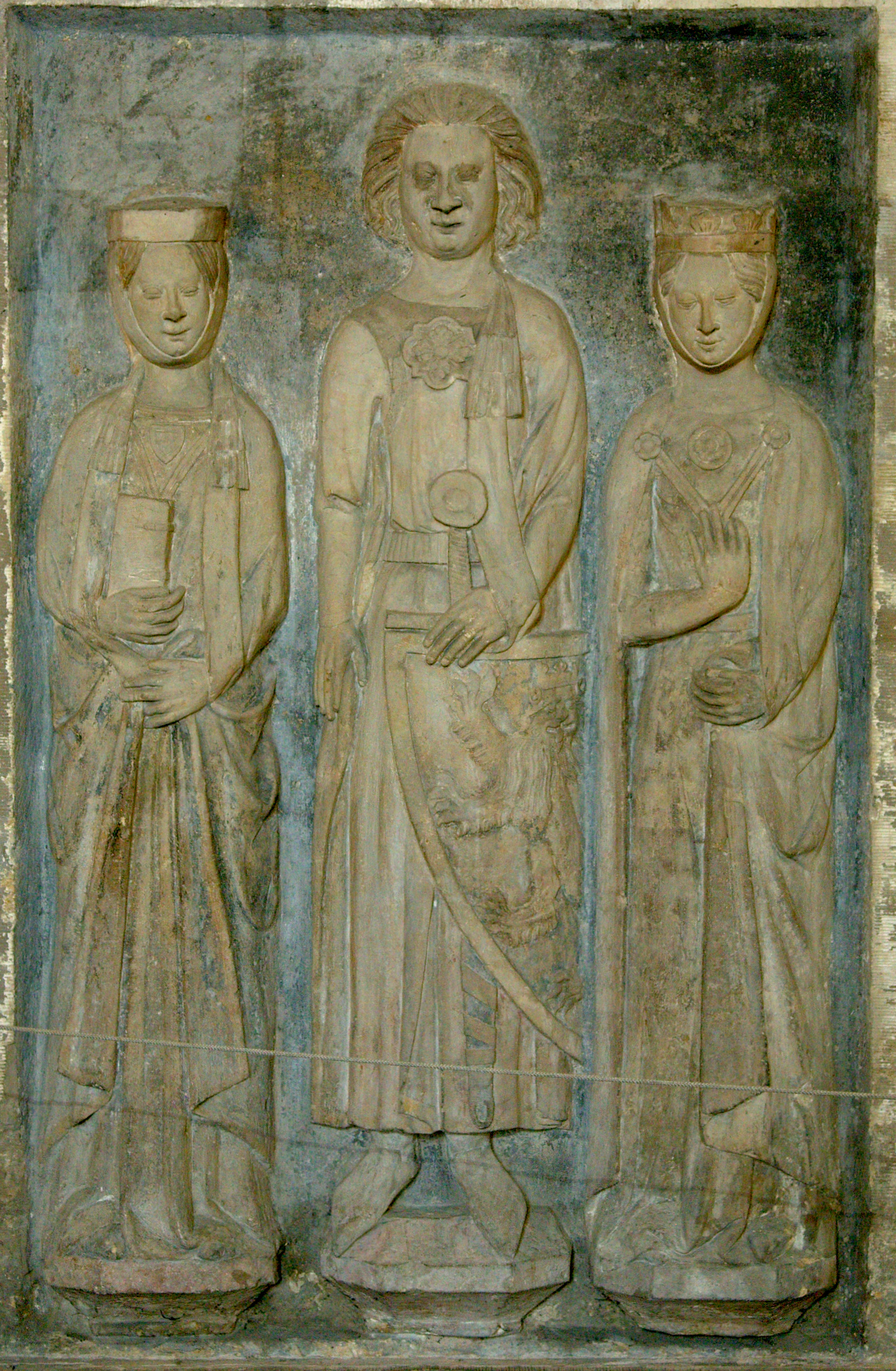 Erfurt cathedral